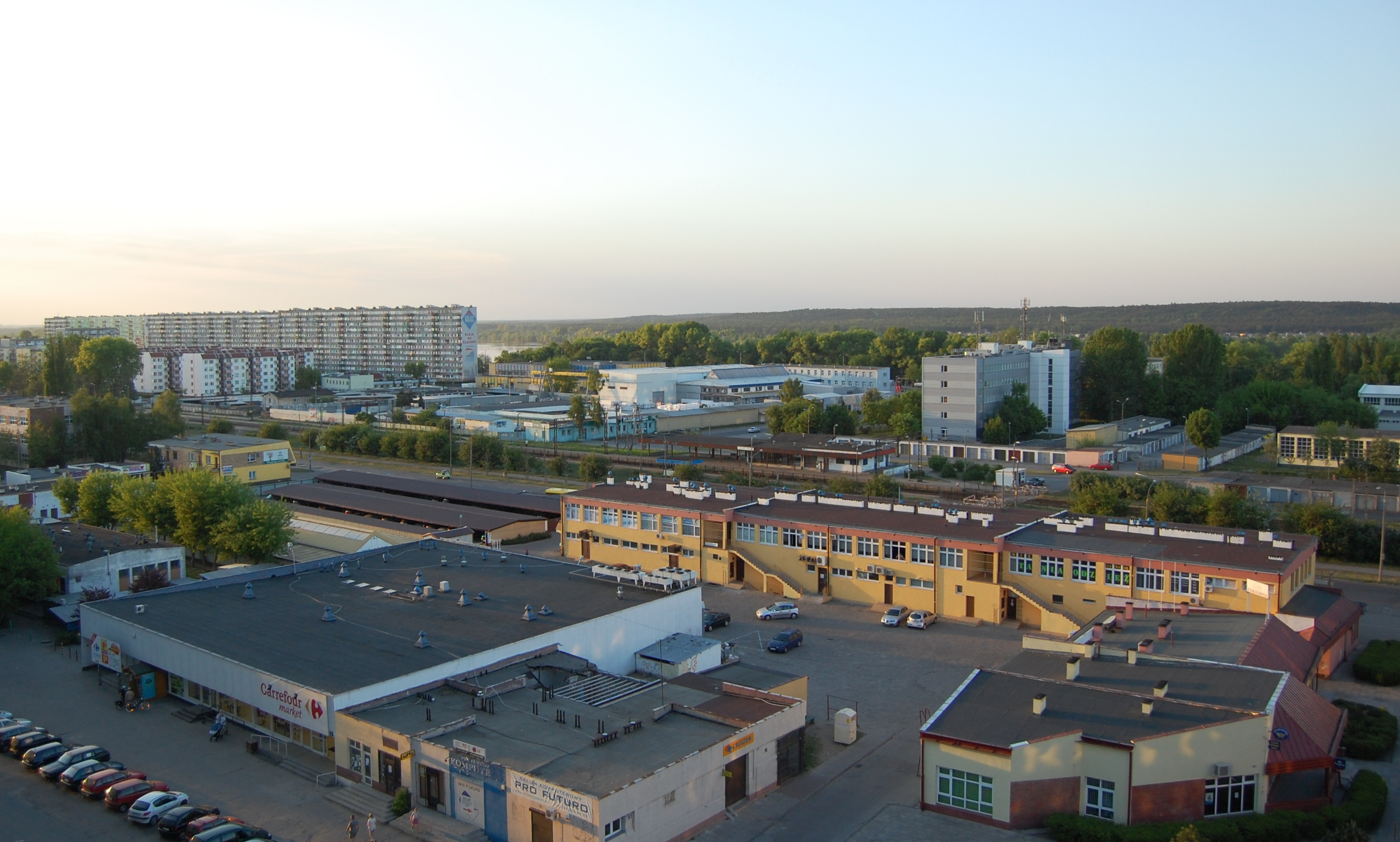 Zazamcze, Włocławek, Poland